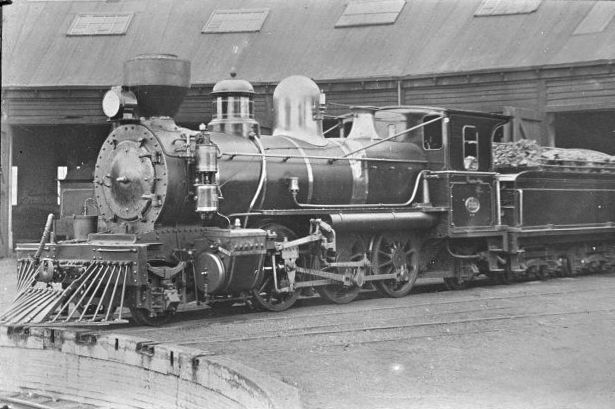 V class tender locomotive of New Zealand. Part of the Godber, Albert Percy, 1875-1949 Collection Alexander Turnbull Library NZ